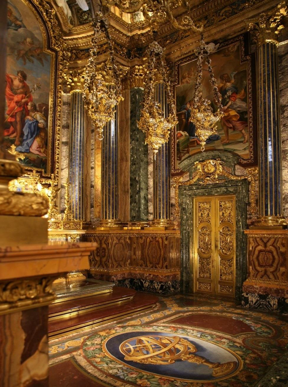 Chapel of St. John the Baptist, St. Roch's Church, Lisbon. Built in Rome in the Sant'Antonio dei Portoghesi church, the Portuguese church in Rome, and blessed by Pope Benedict XIII before being disassembled and transported to Lisbon, were it was reassembled in 1747. Materials: amethyst (altar front), lapis lazuli (columns), jaspis, porphyry, agate, more than twenty qualities of marble, etc. Note the armillary sphere on the floor in front of the altar - a symbol of Portugal as a naval power.